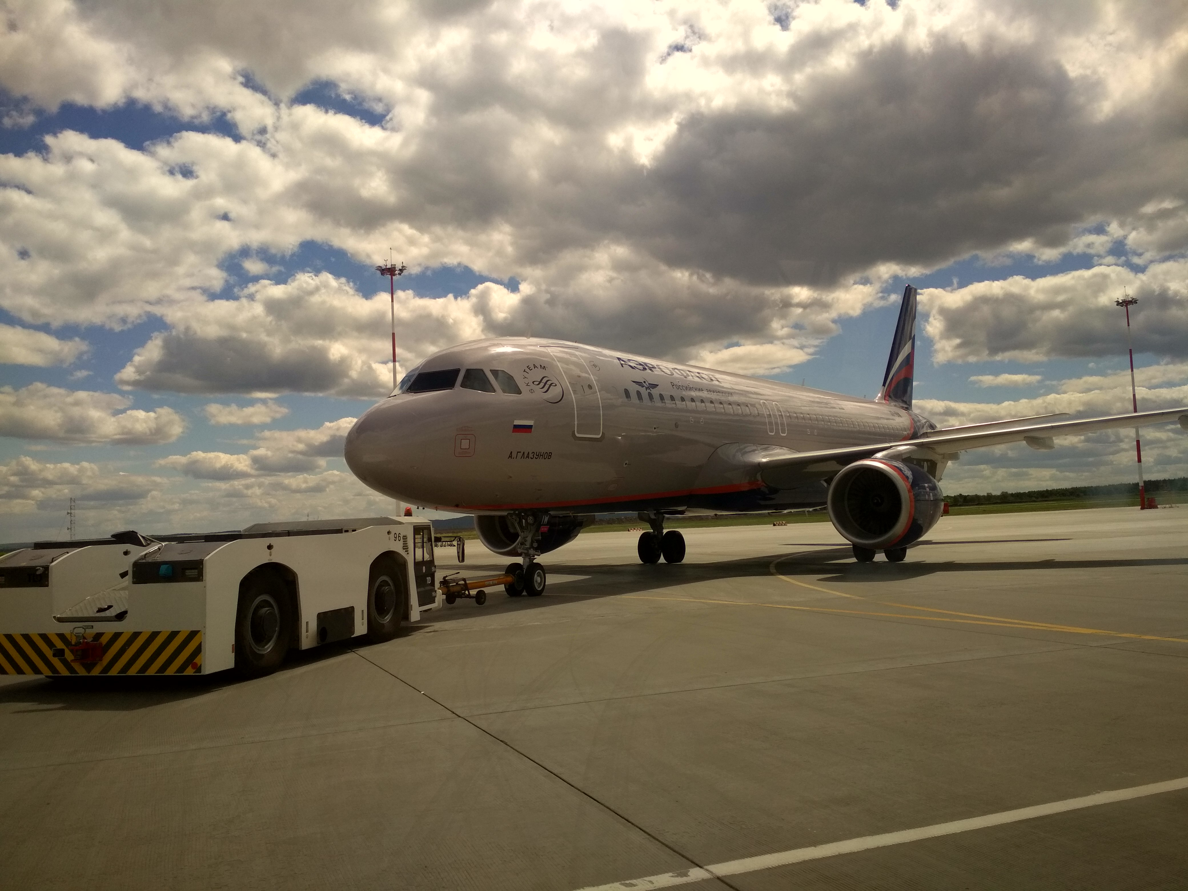 Aeroflot Airbus A320-214 VP-BWI. The aircraft is named after the Russian composer Alexander Glazunov. Kurumoch International Airport.